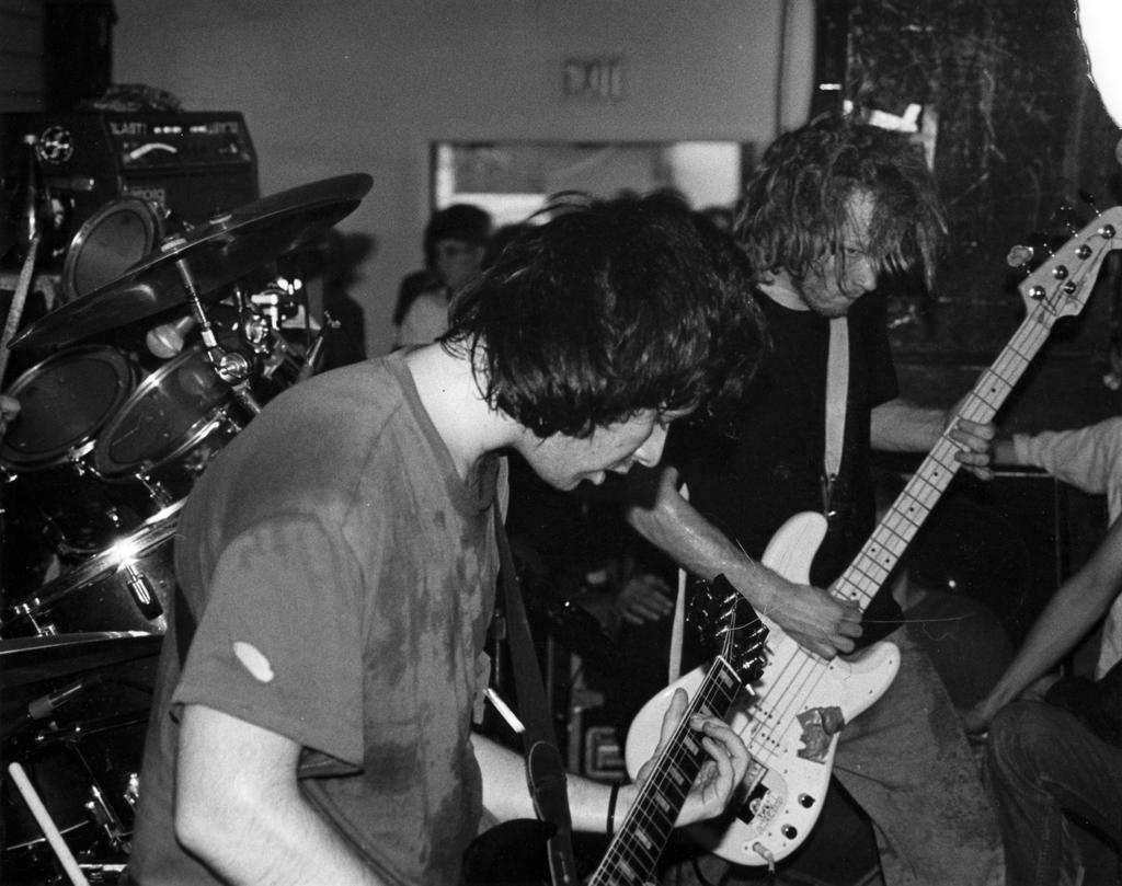 Corrosion of Conformity playing in Denver at the Eagles Lodge in Northglenn. This was the Animosity tour, as a trio with Mike on vox.